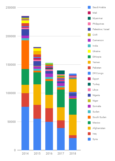 Conflict casualties 2014-2018